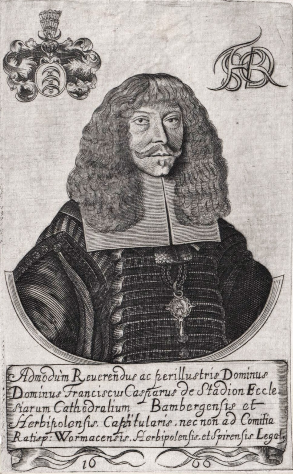 Franz Kaspar von Stadion (1637-1704), von 1673–1704 Fürstbischof von Lavant.